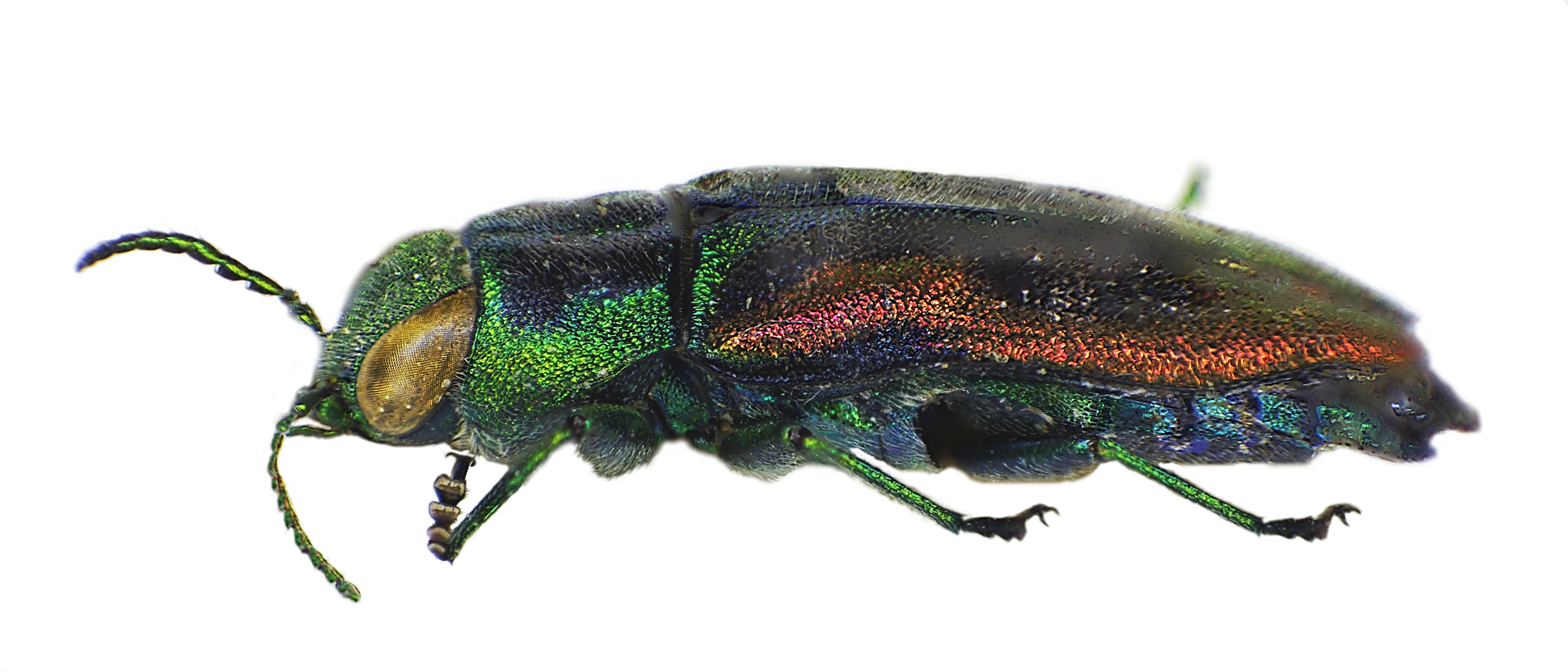 Side of Anthaxia candens